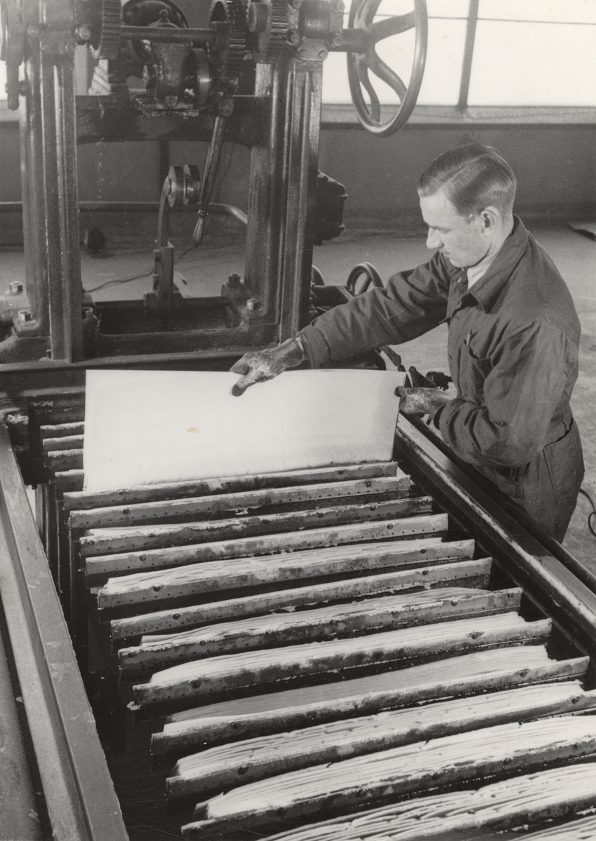 Mercerisering vid AB Svenskt Konstsilke i Borås, 1947.